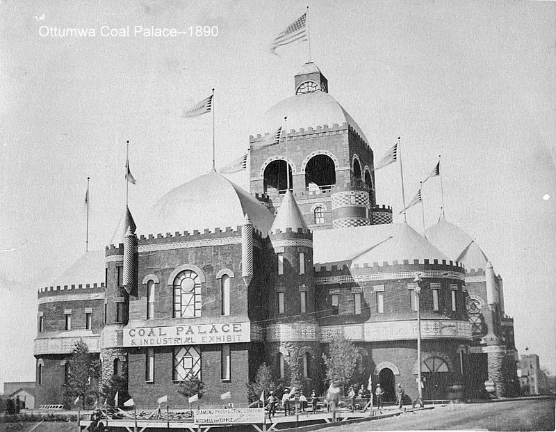 One of just a few known photographs of the Coal Palace in Ottumwa, Iowa, which was built in 1890 and demolished in 1892.